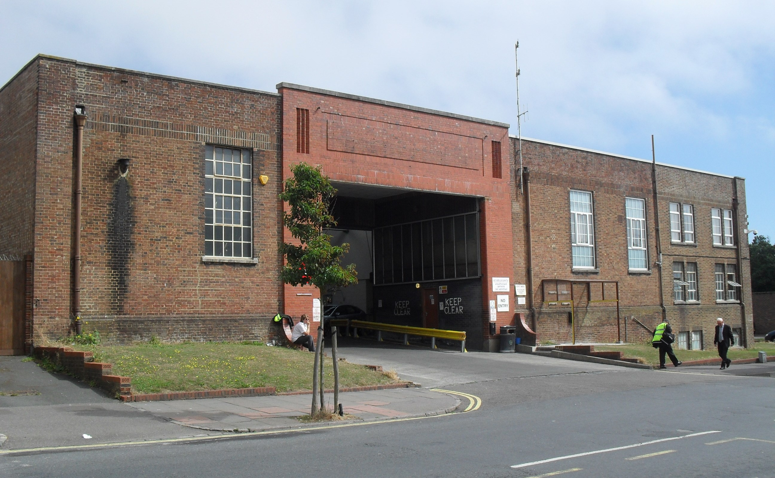 Whitehawk Bus Garage, Whitehawk Road, Whitehawk, City of Brighton and Hove, England. One of the Brighton & Hove Bus and Coach Company's three main depots, along with Lewes Road and Conway Street (Hove). This is the main façade looking southeast; the depot goes back a long way along Henley Road.